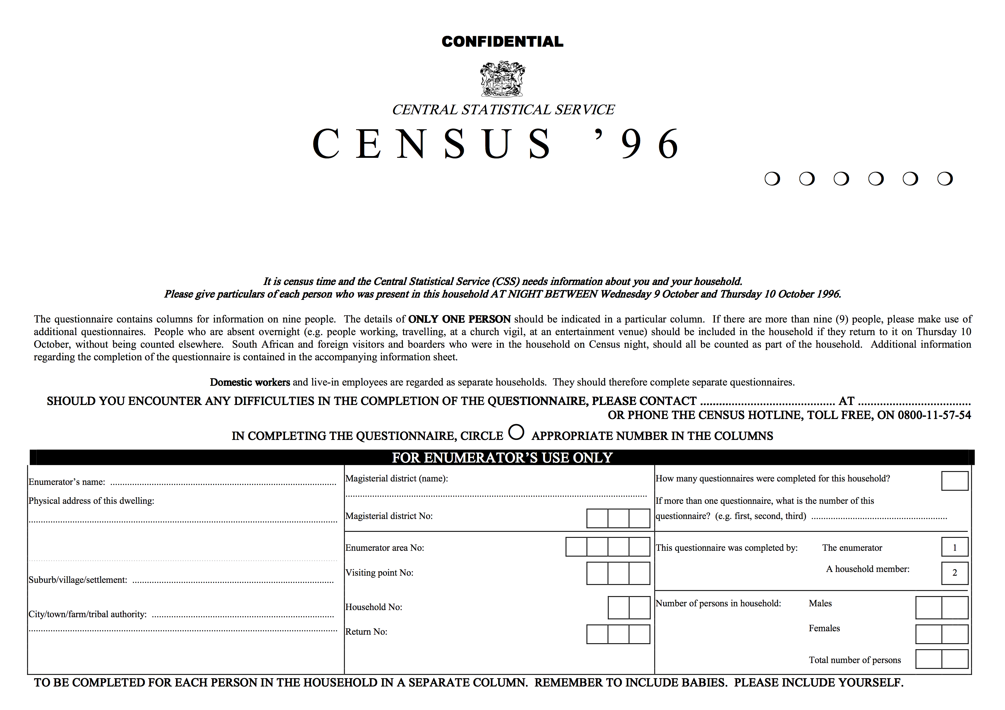 This is the cover page of the 2001 South African National Census personal questionnaire.